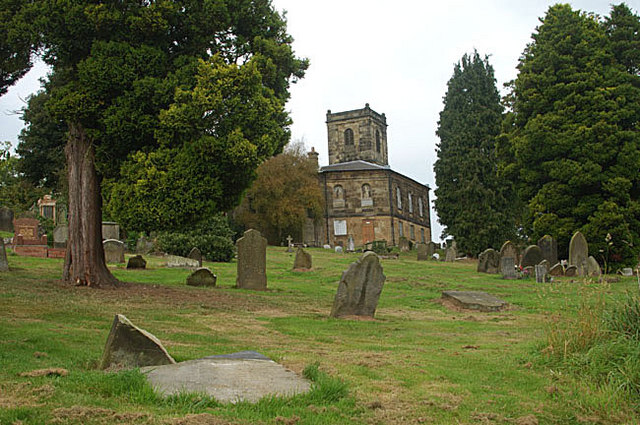 St. Michaels (Madeley) churchyard This is a very interesting churchyard in that several of the monuments are made of Iron.